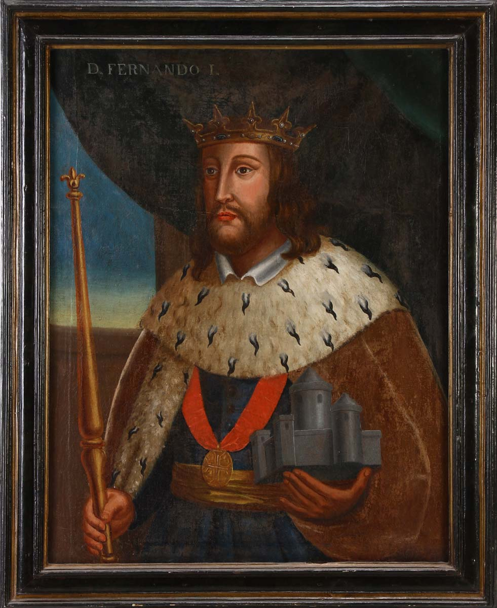 Ferdinand I of Portugal